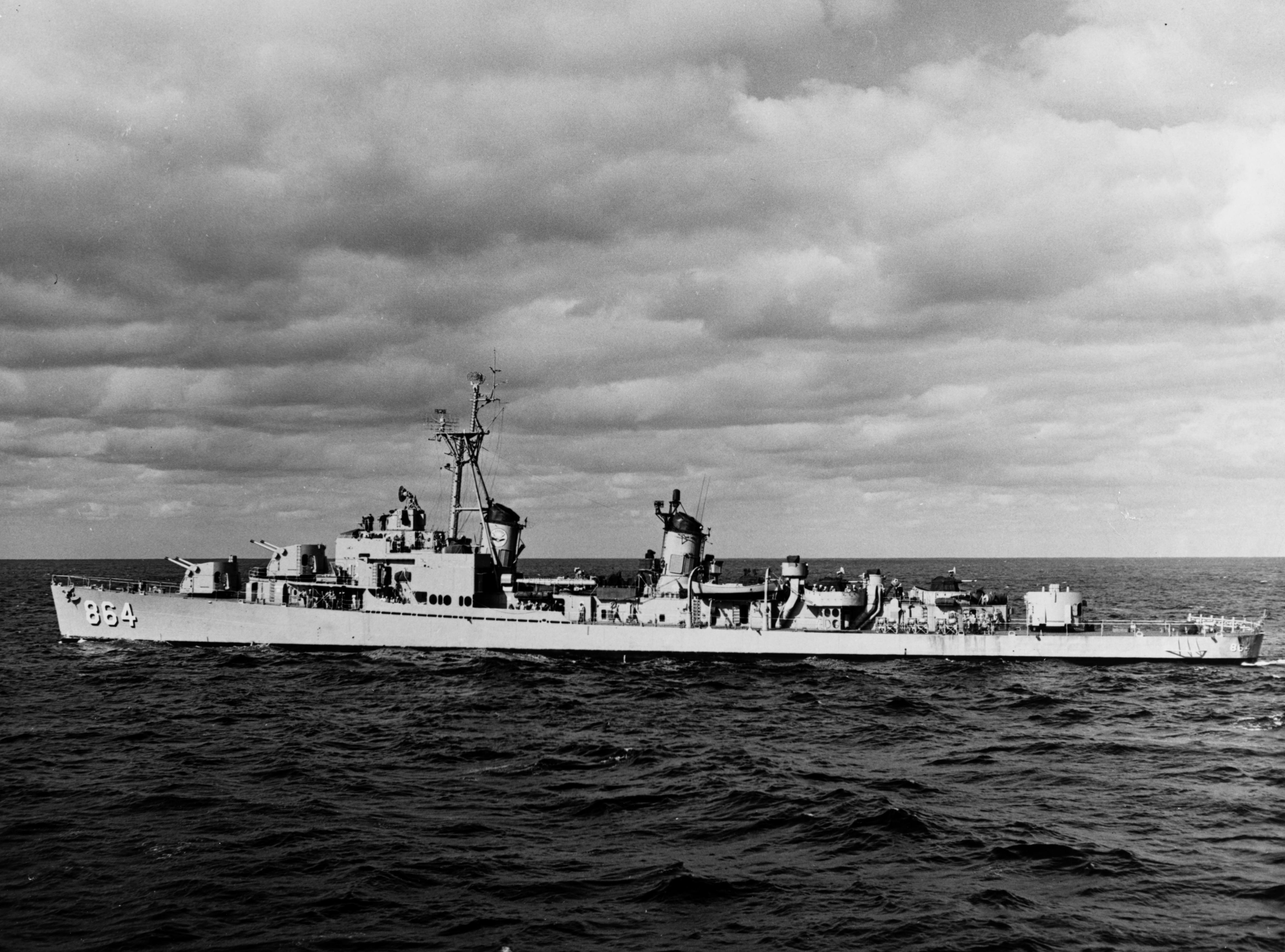 The U.S. Navy USS Harold J. Ellison (DD-864) photographed in May 1958.